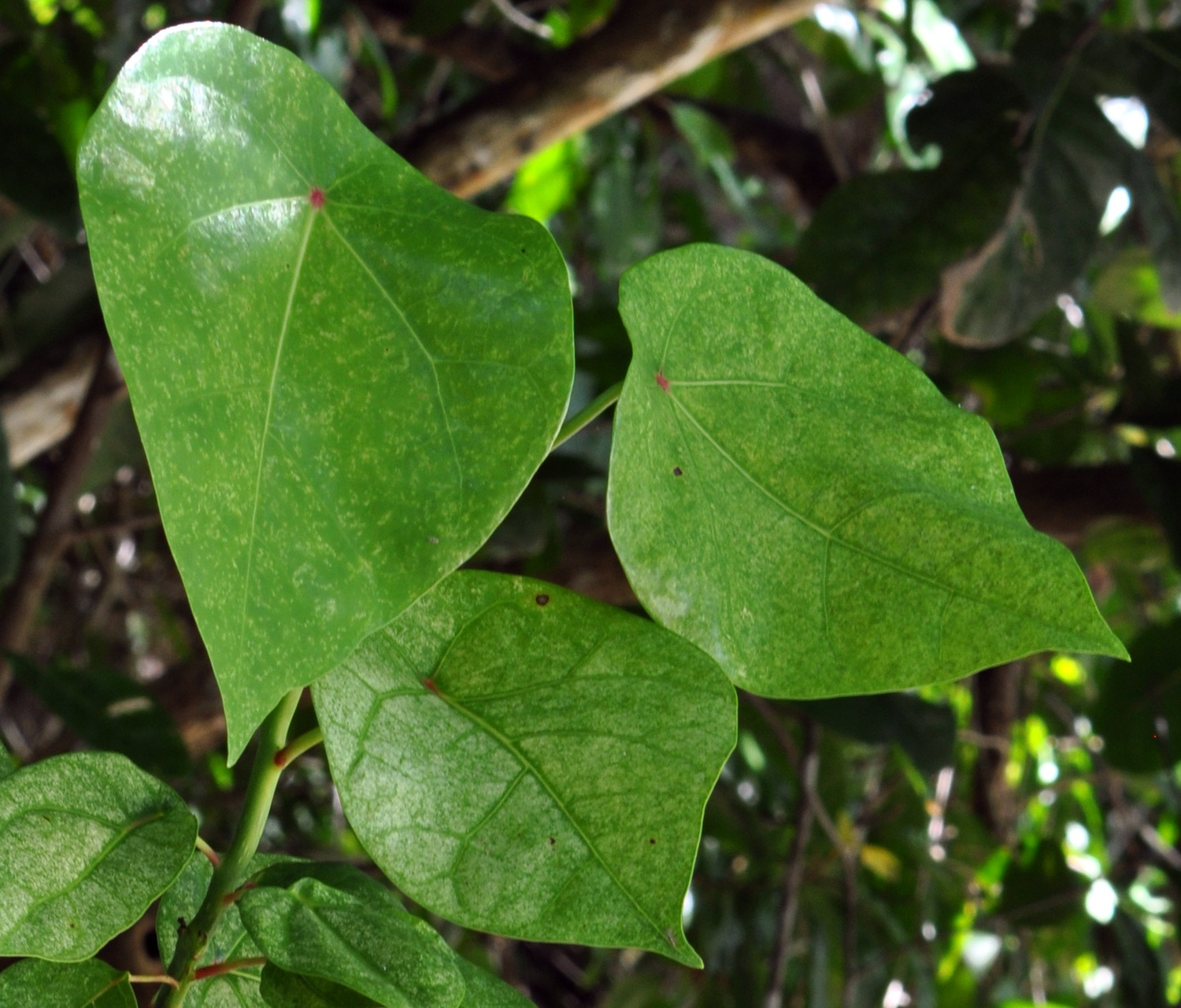 Leaves of Hernandia nymphaefolia (syn. H. peltata). Kordiris, Raja Ampat islands, Indonesia.